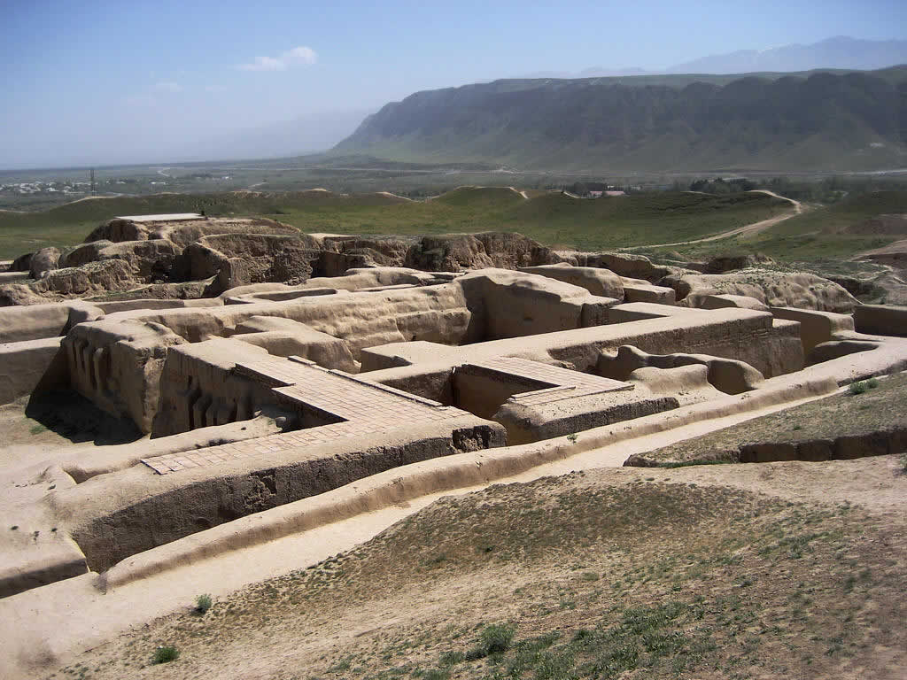 The remains of the fortress of Nisa, an ancient parthian capital, now in Turkmenistan.